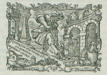 Comino's mark